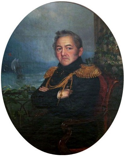 Mikhail Petrovich Lazarev